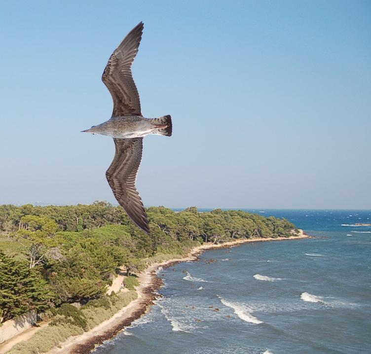 An example file to illustrate layers - bird at left